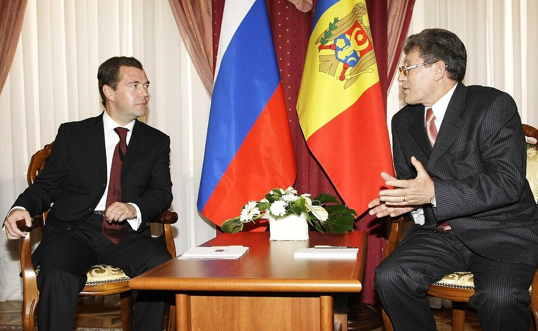 CHISINAU. With Acting President of Moldova Mihai Ghimpu.